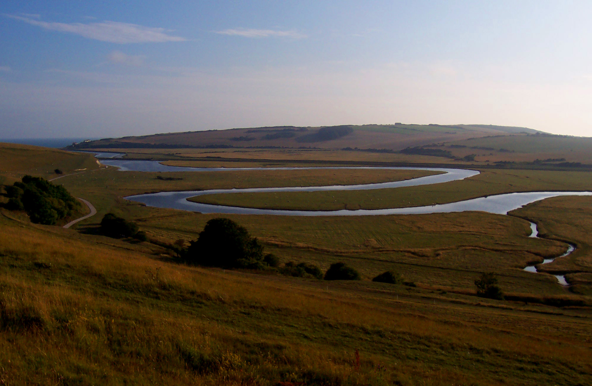 Meander pattern on the valley floor of the river Cuckmere at the Seven Sisters Country Park in southern England